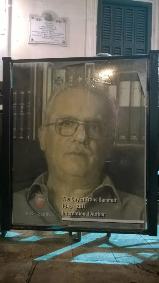 A photo I took of a poster put up by the Haz-Zebbug Local Council about Frans Sammut - international author